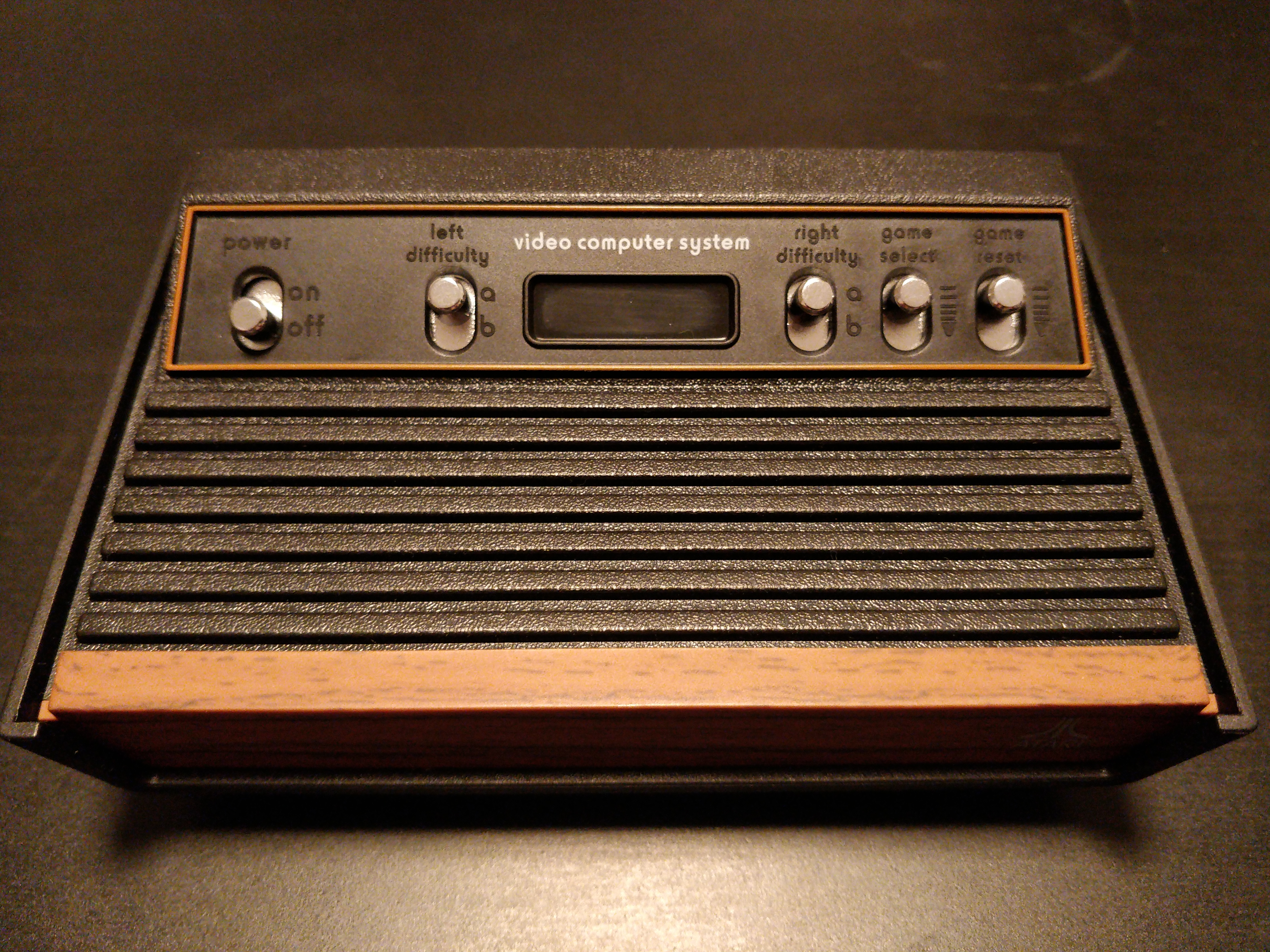 Atari Flashback X Deluxe video game console